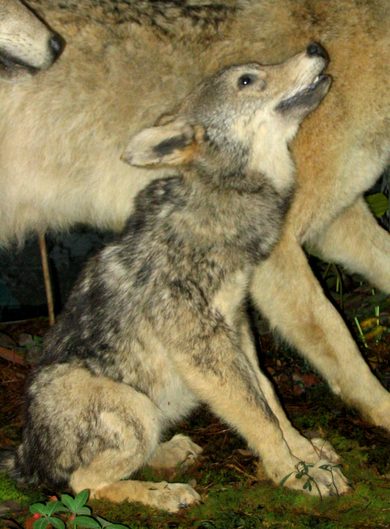 A taxidermied Grey Wolf on display at the Patuxent Wildlife Research Center.